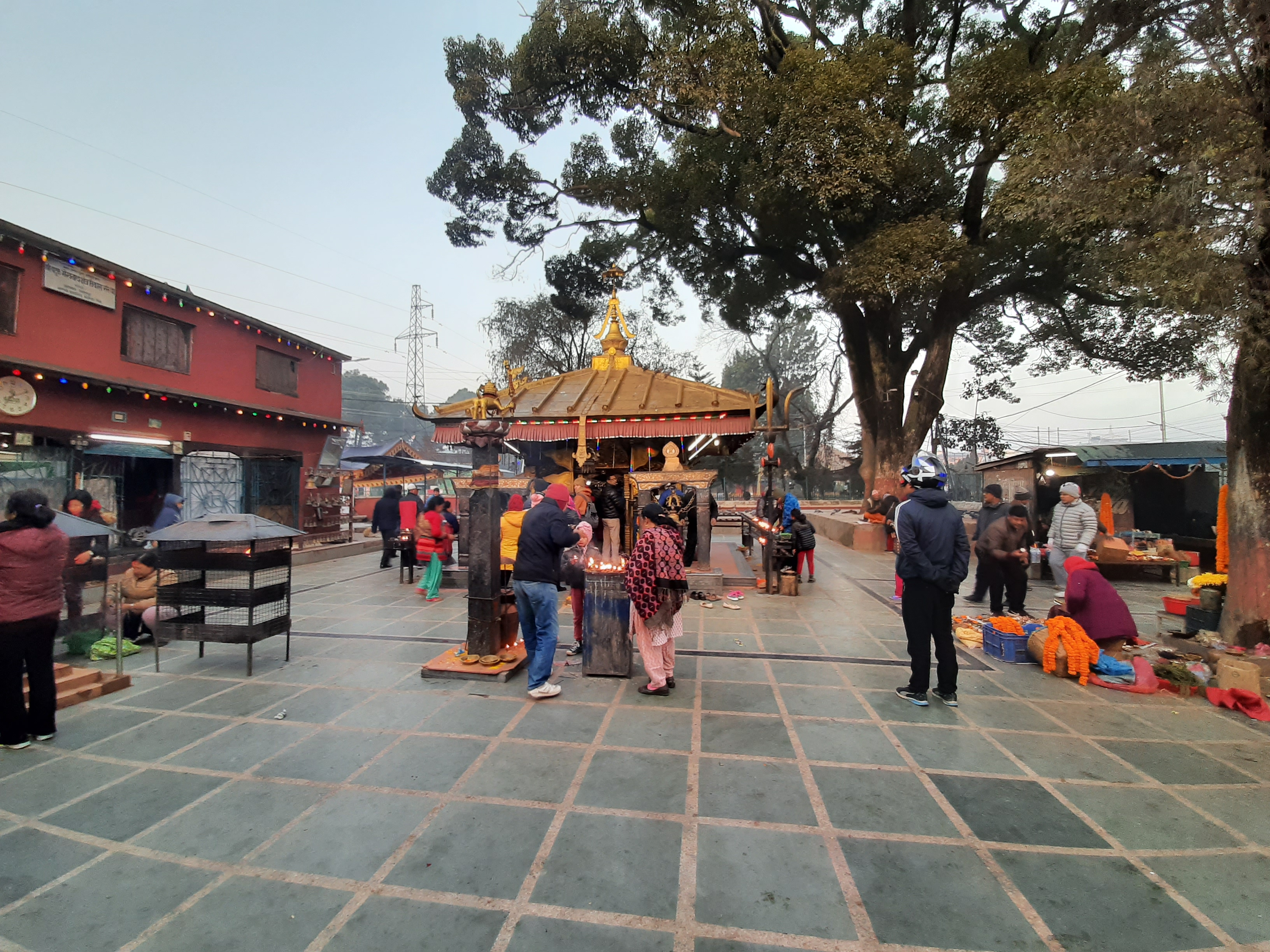 Batuk Vairav Temple,Lagankhel,Lalitpur,Nepal